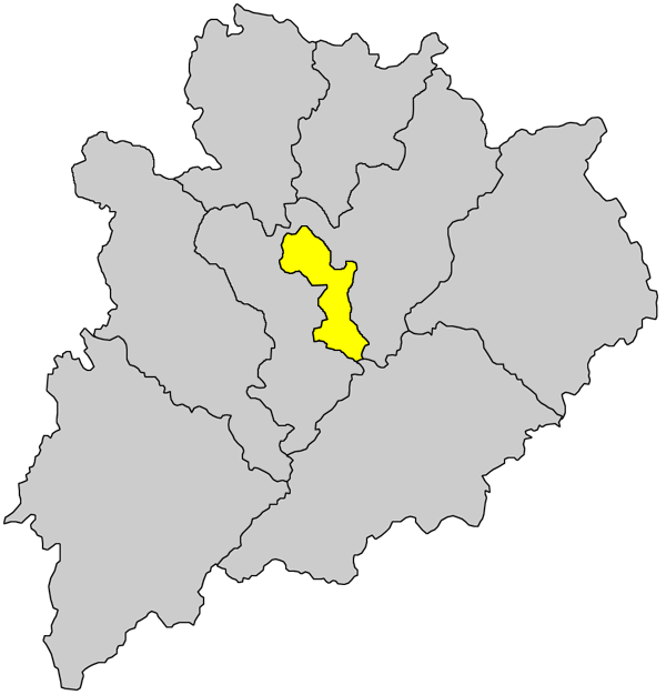 Location of Meijiang District, Meizhou